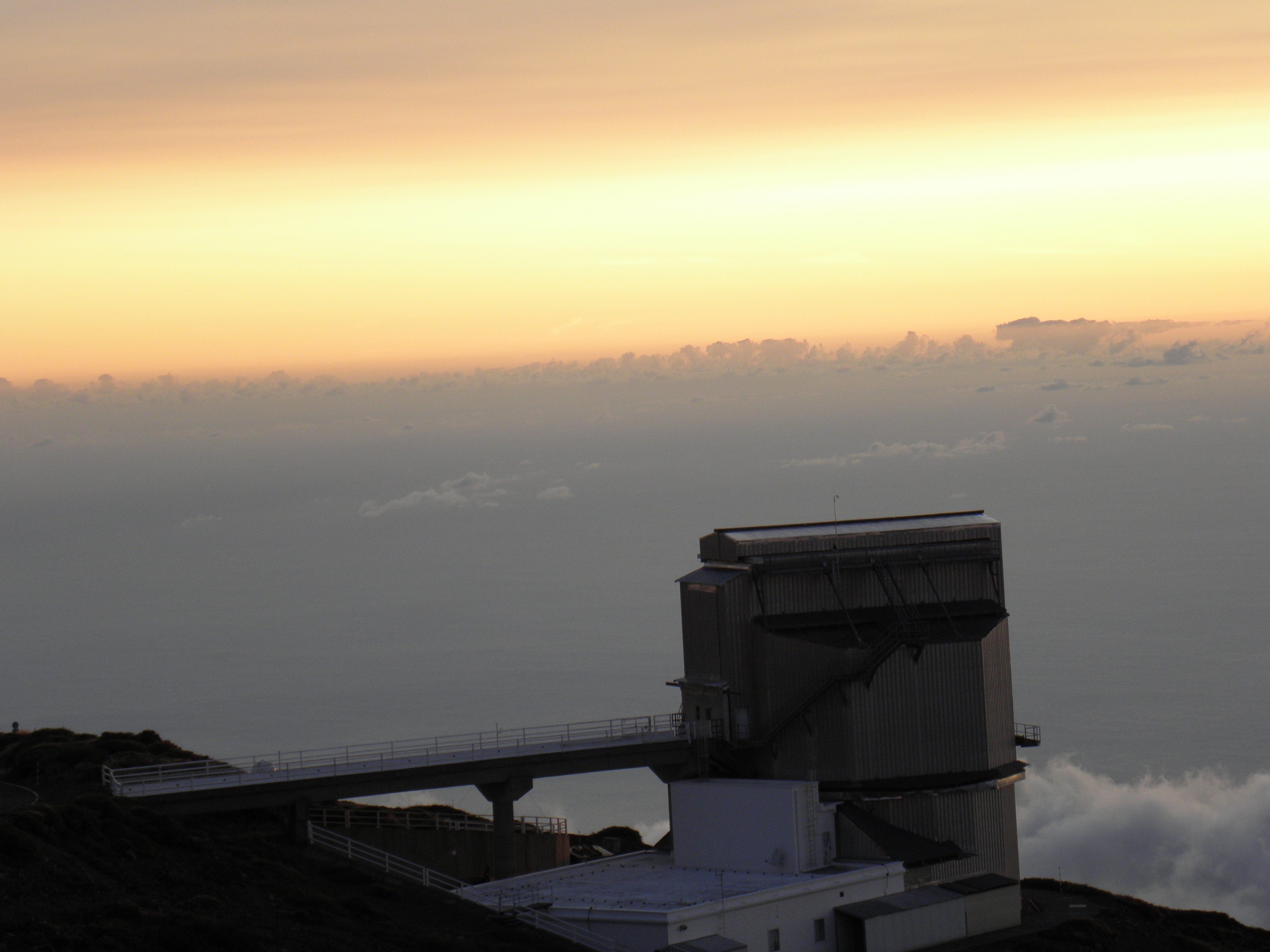 Telescopio Nazionale Galileo at the island of La Palma near time of sunset.